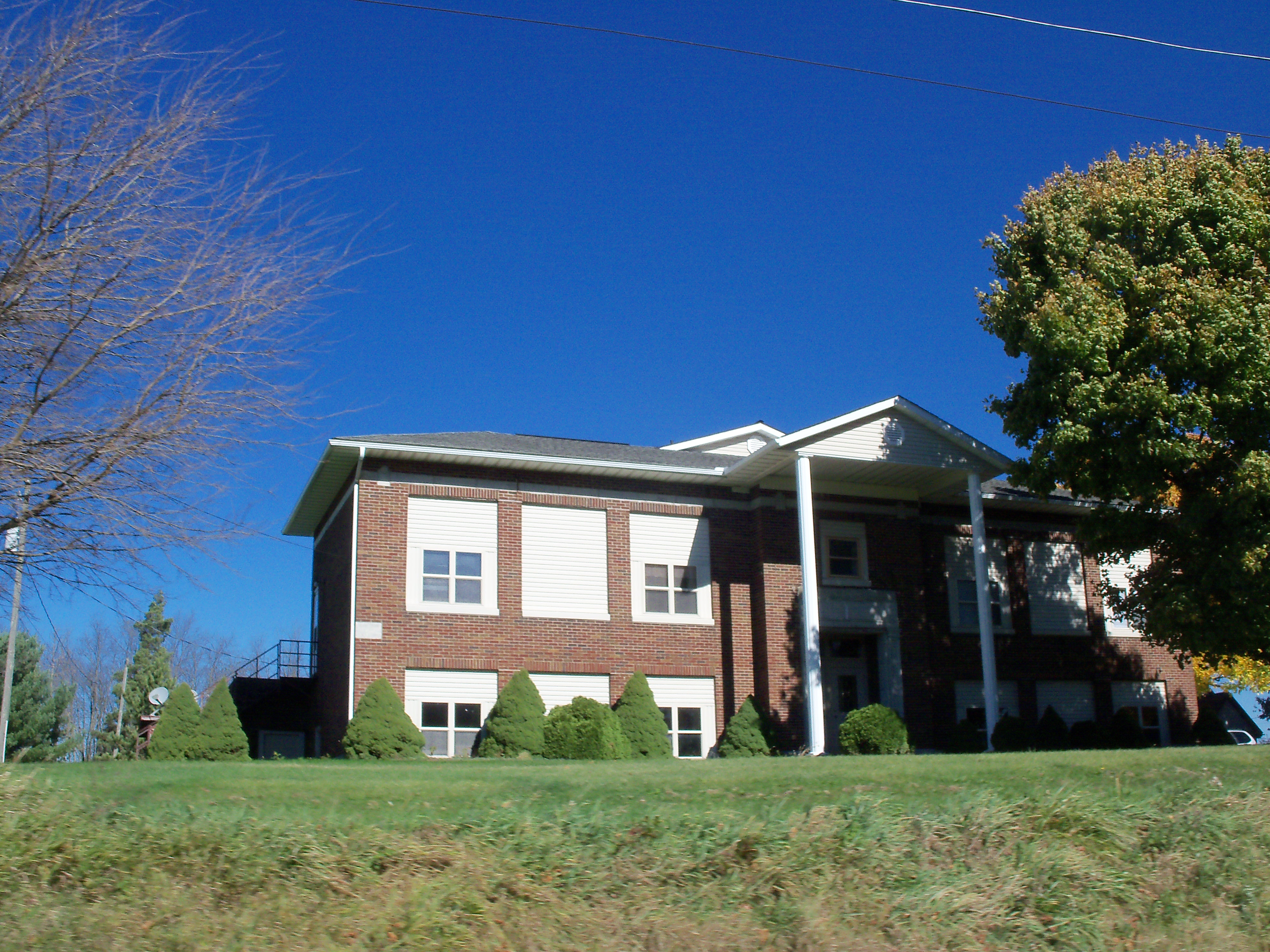 This building was the school in New Harrisburg, Ohio, it is now an apartment building.